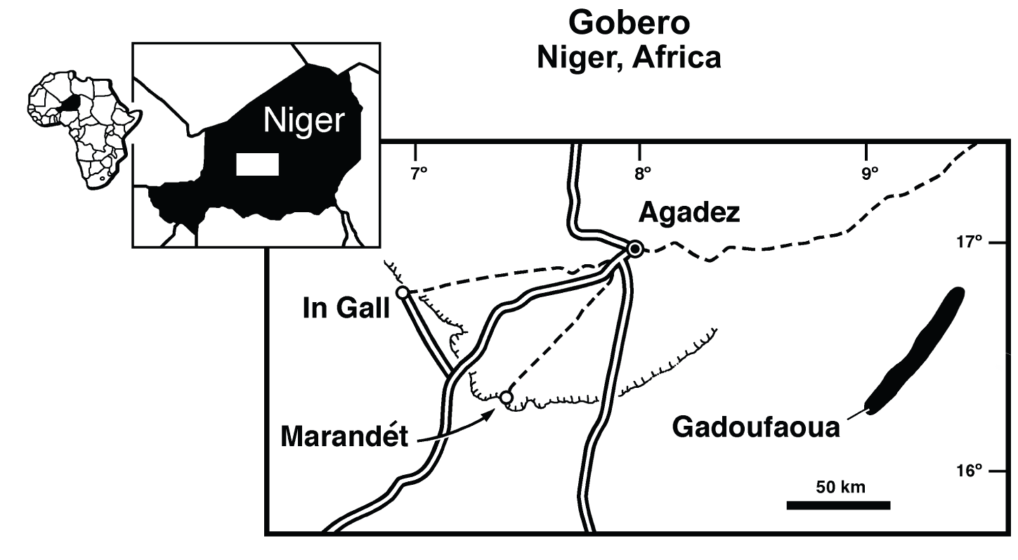 Location of outcrops of the Elrhaz Formation where fossils of Nigersaurus taqueti were found.